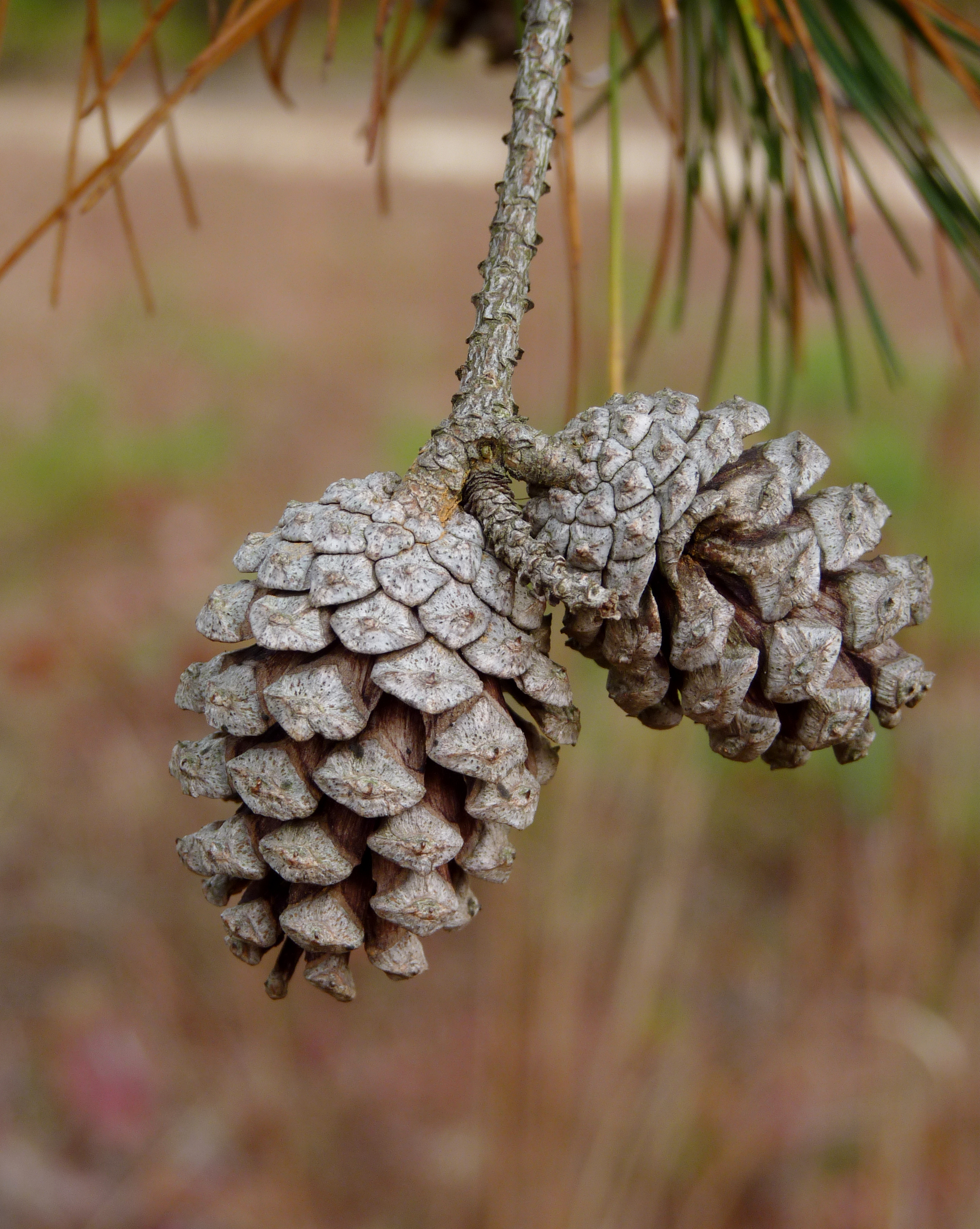 Shortleaf Pine Pinus echinata old weathered cones, Chatsworth, New Jersey.